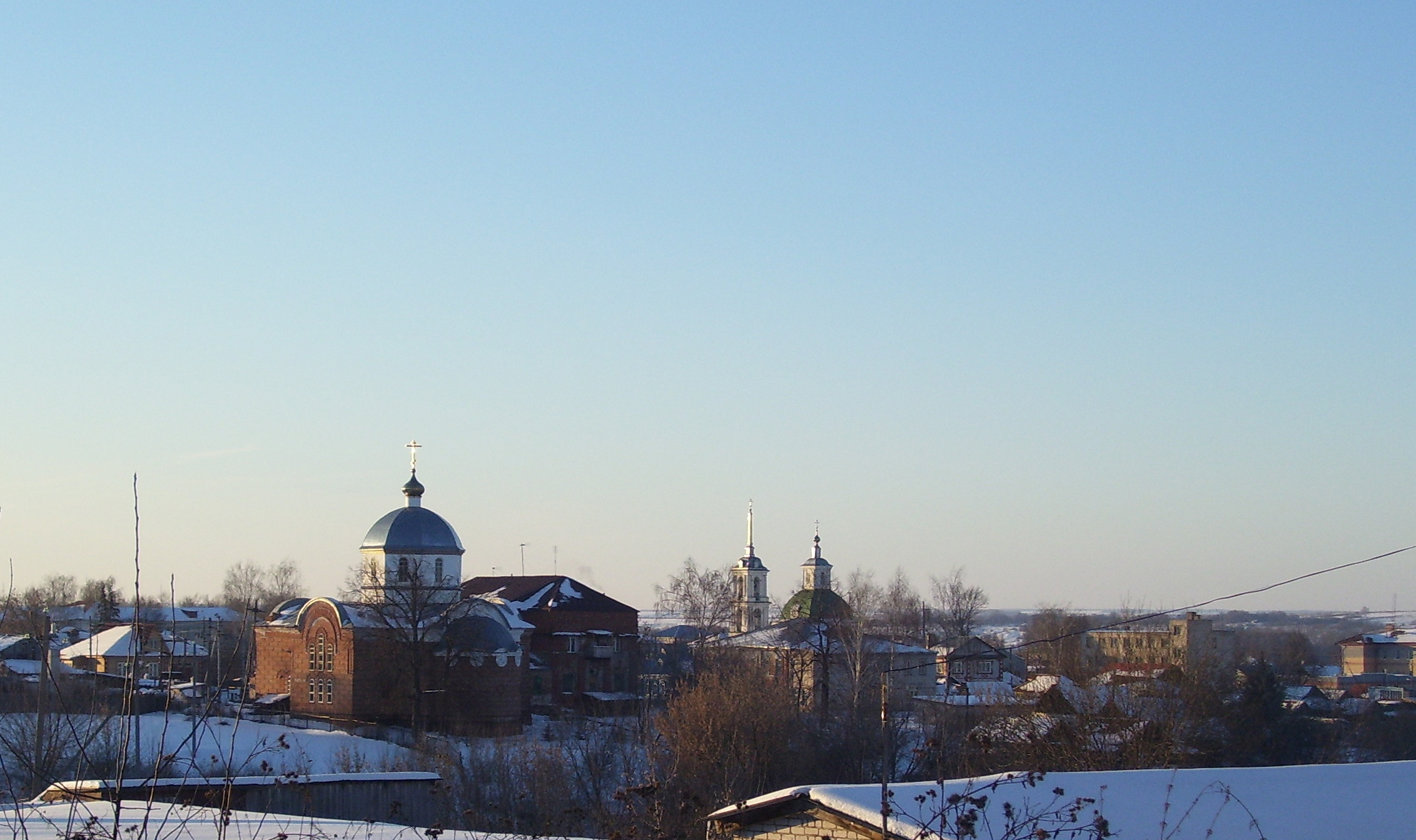 Вид на центр.Никольская единоверческая церковь, 1881-1885 гг.